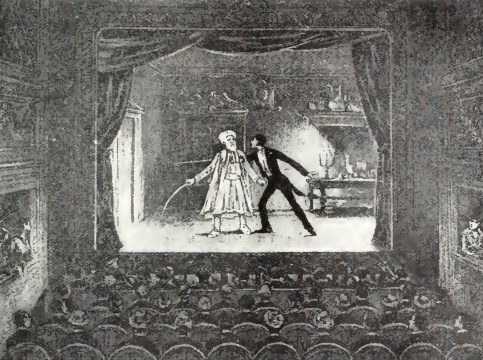 Étienne-Gaspard Robert's ghost illusion